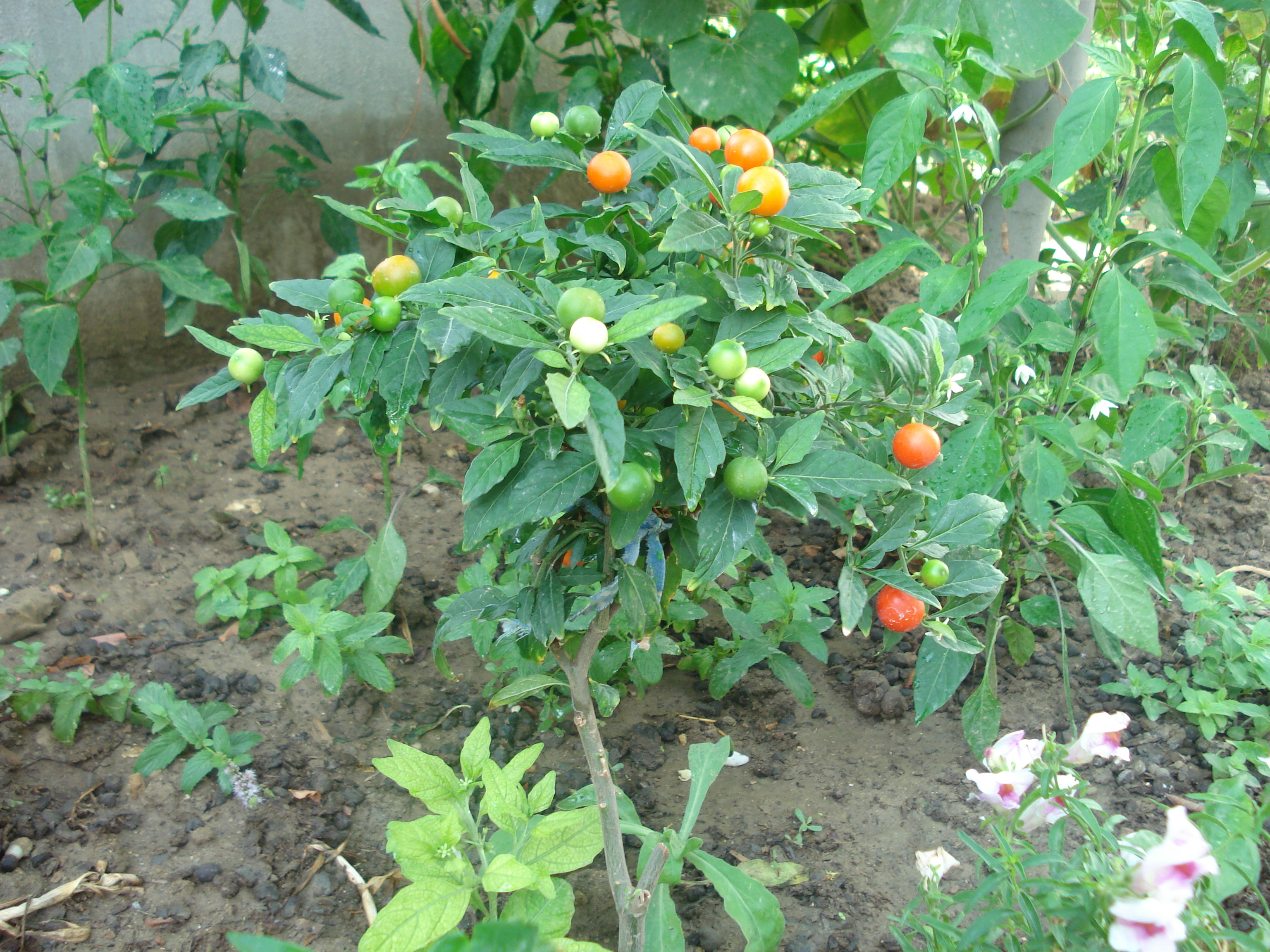 Solanum pseudocapsicum from Turkey